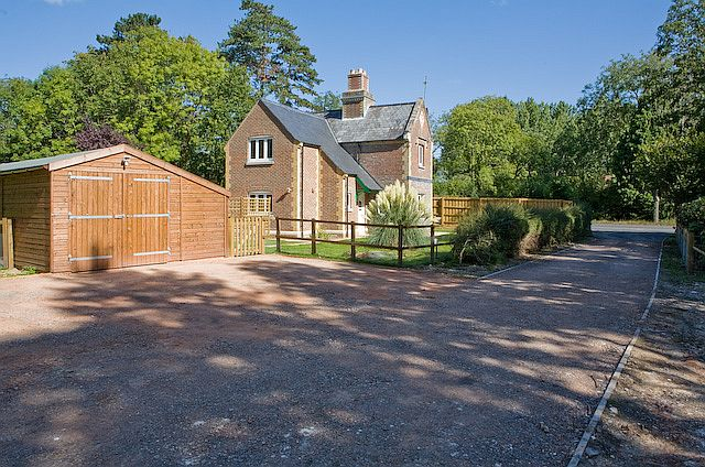 North Lodge, Wintershill This lodge, which is on the Winchester Road, has just been refurbished. There is a footpath along its drive. I presume the lodge was originally associated with Wintershill Hall.